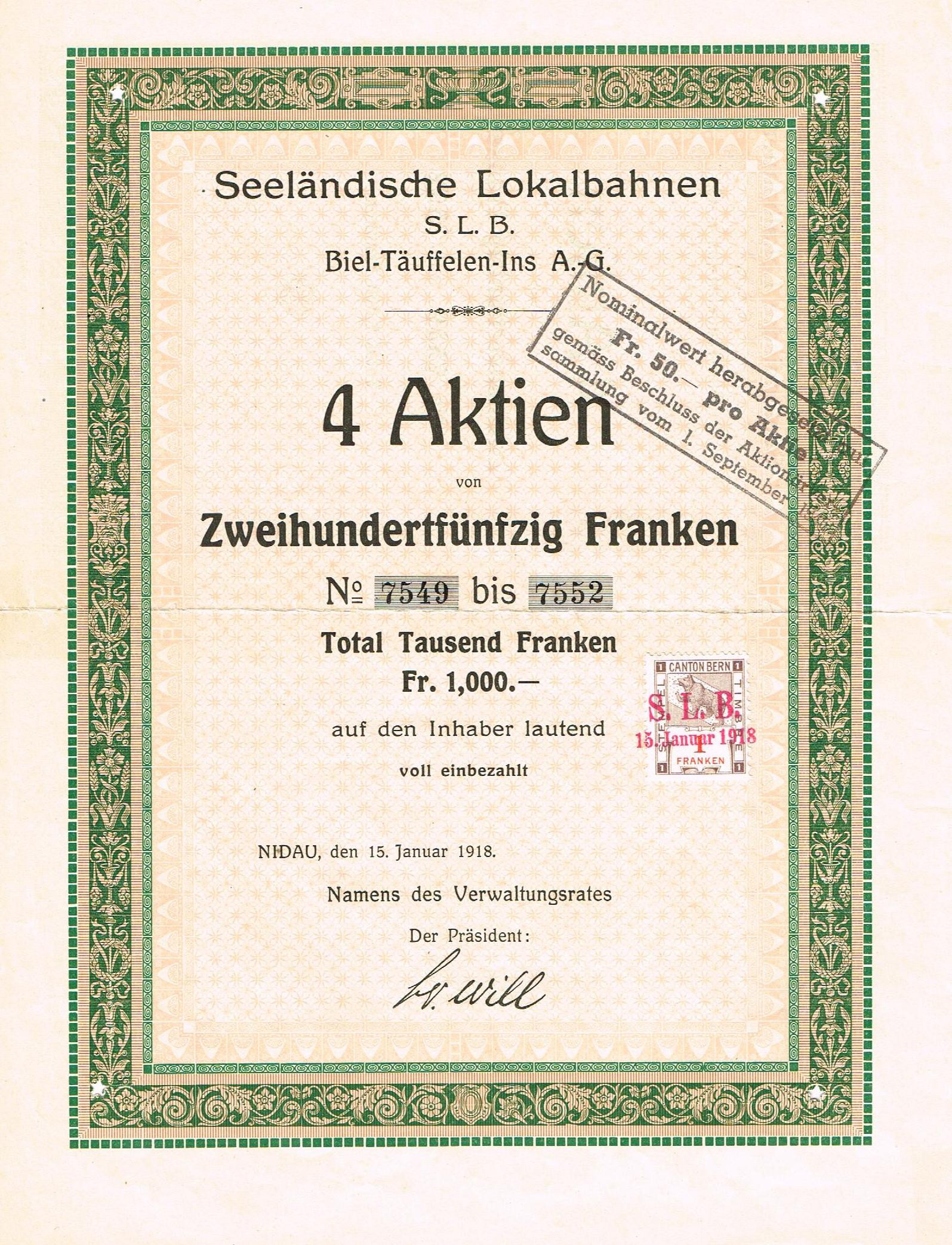 Share of the Seeländischen Lokalbahnen, issued 15. January 1918